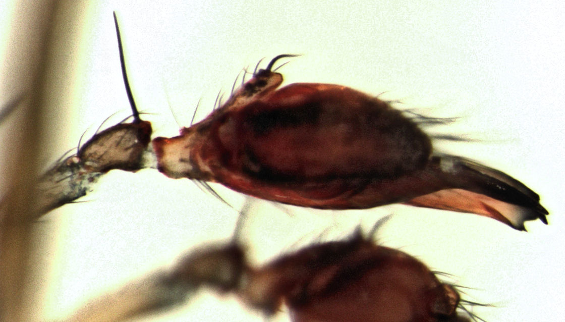 mature male Pahoroides aucklandica, palp